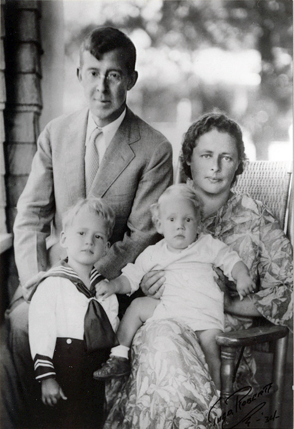 Pitirim Alexandrovich Sorokin (Russian: Питирим Александрович Сорокин) (January 21, 1889 – February 11, 1968), a Russian-American sociologist.